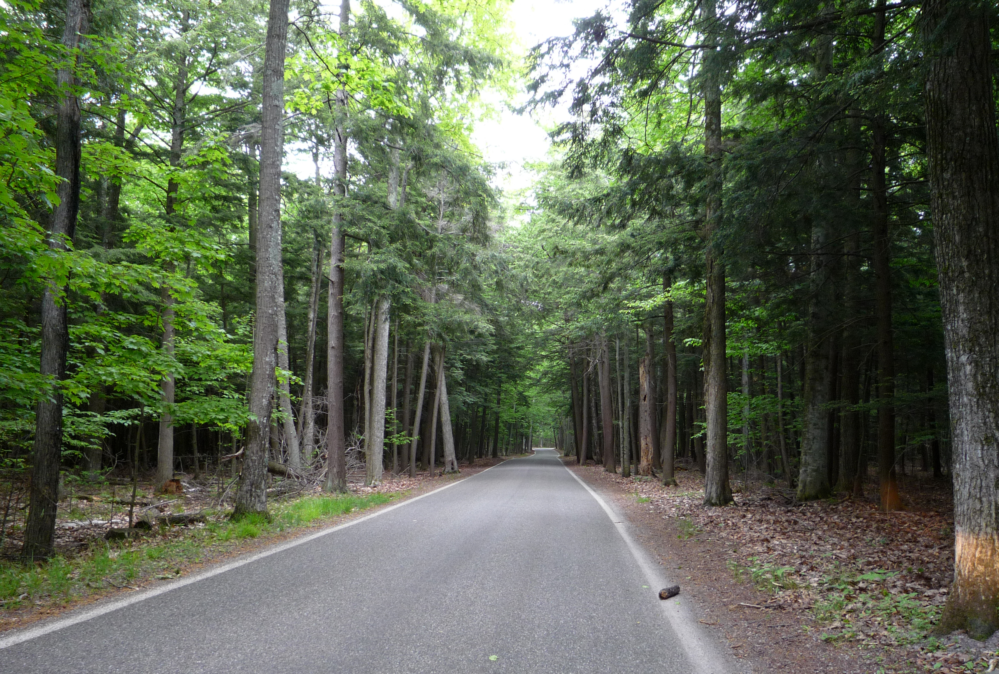 The Tunnel of Trees Scenic Heritage Route section of Michigan state highway M-119, in Emmet County, Michigan. This view is from the highway's section between Good Hart and Cross Village, Michigan. The Tunnel of Trees Scenic Heritage Route is a Michigan Scenic Heritage Route.